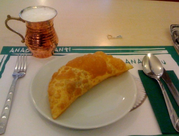 Picture of a Çibörek and an Ayran.